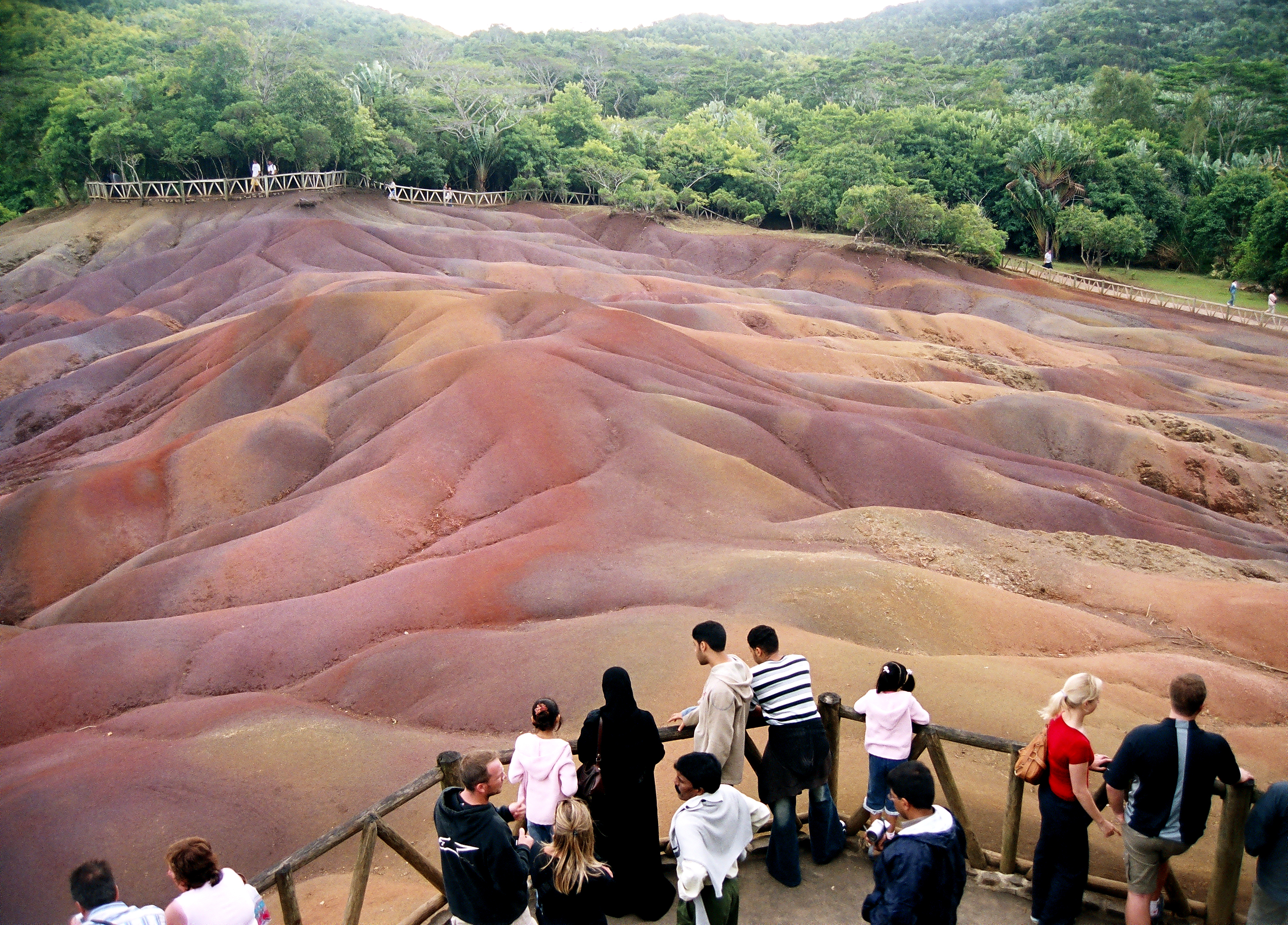 The Seven Coloured Earths (Terres des Sept Couleurs) in the Chamarel Plain, Mauritius.